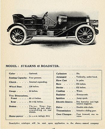 1908 Stearns roadster. Image scanned from the "Handbook of Gasoline Automobiles" copyright date 1908 by the Association of Licensed Automobile Manufacturers